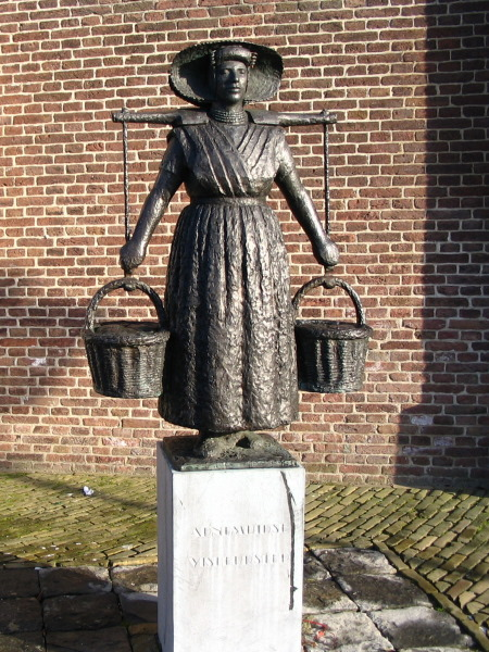 Female fish pedlar in Arnemuiden, Zeeland, The Netherlands. A sculpture standing in front of the local church of Arnemuiden.